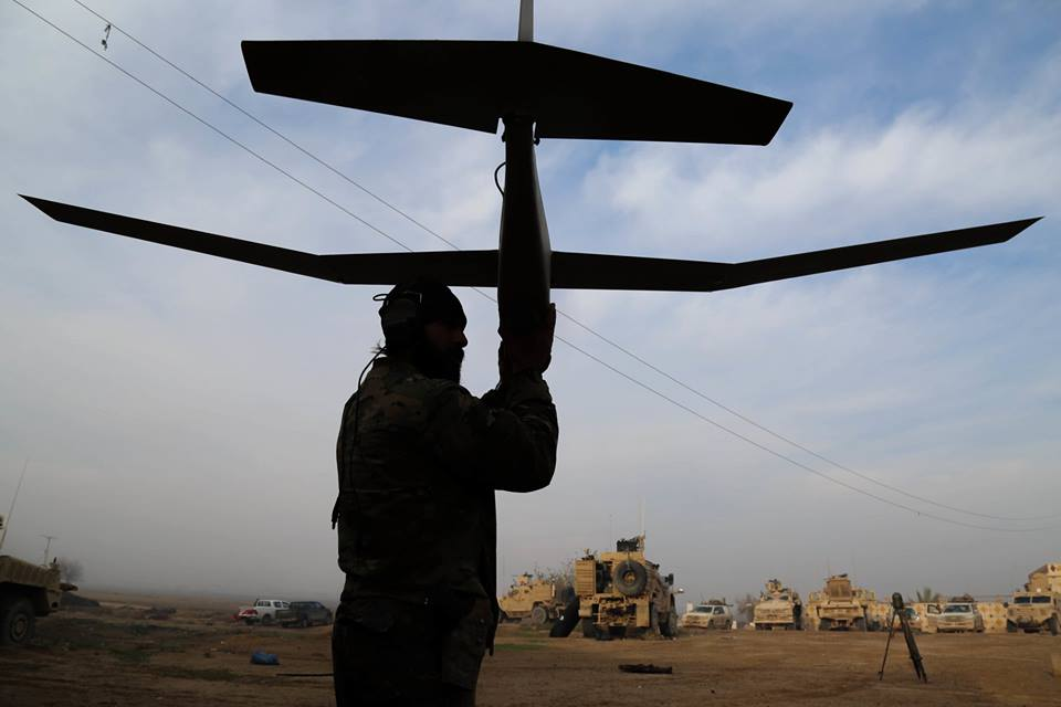 A Coalition Forces member prepares to launch an AeroVironment RQ-20 Puma in support of Operation Round Up near Hajin, Syria, Nov. 19. The Puma collects imagery for intelligence surveillance and reconnaissance purposes.